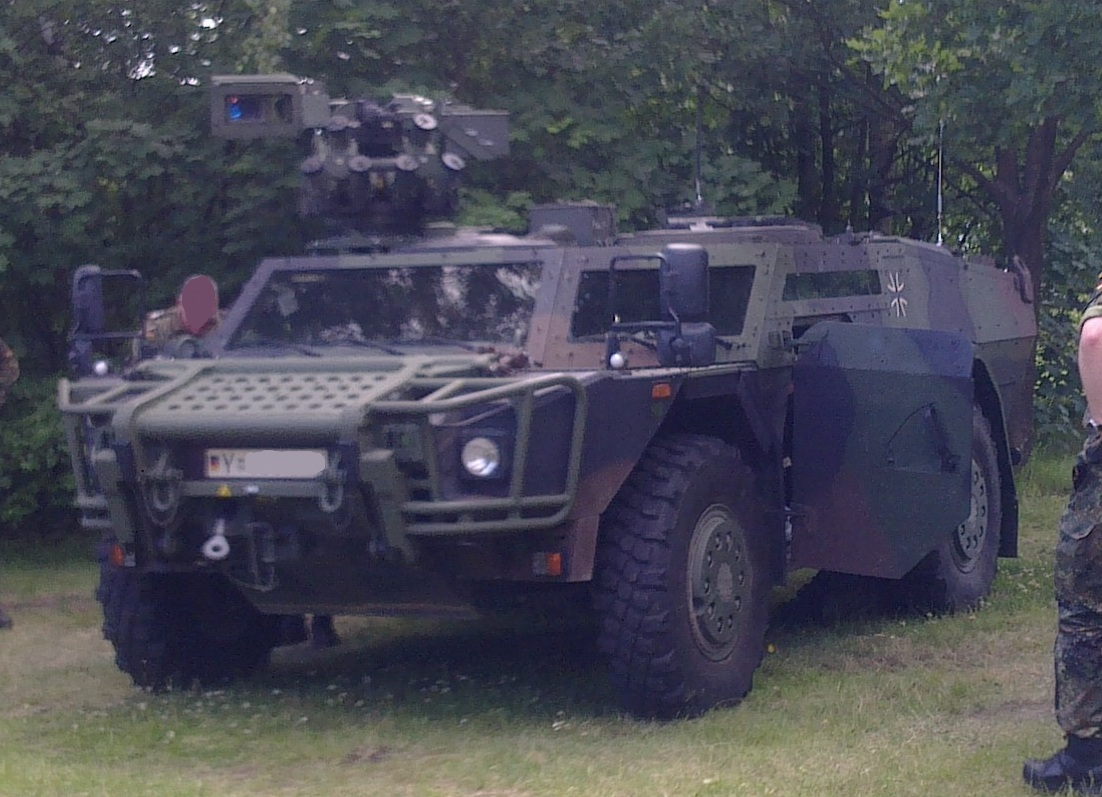 Fennek 1A2